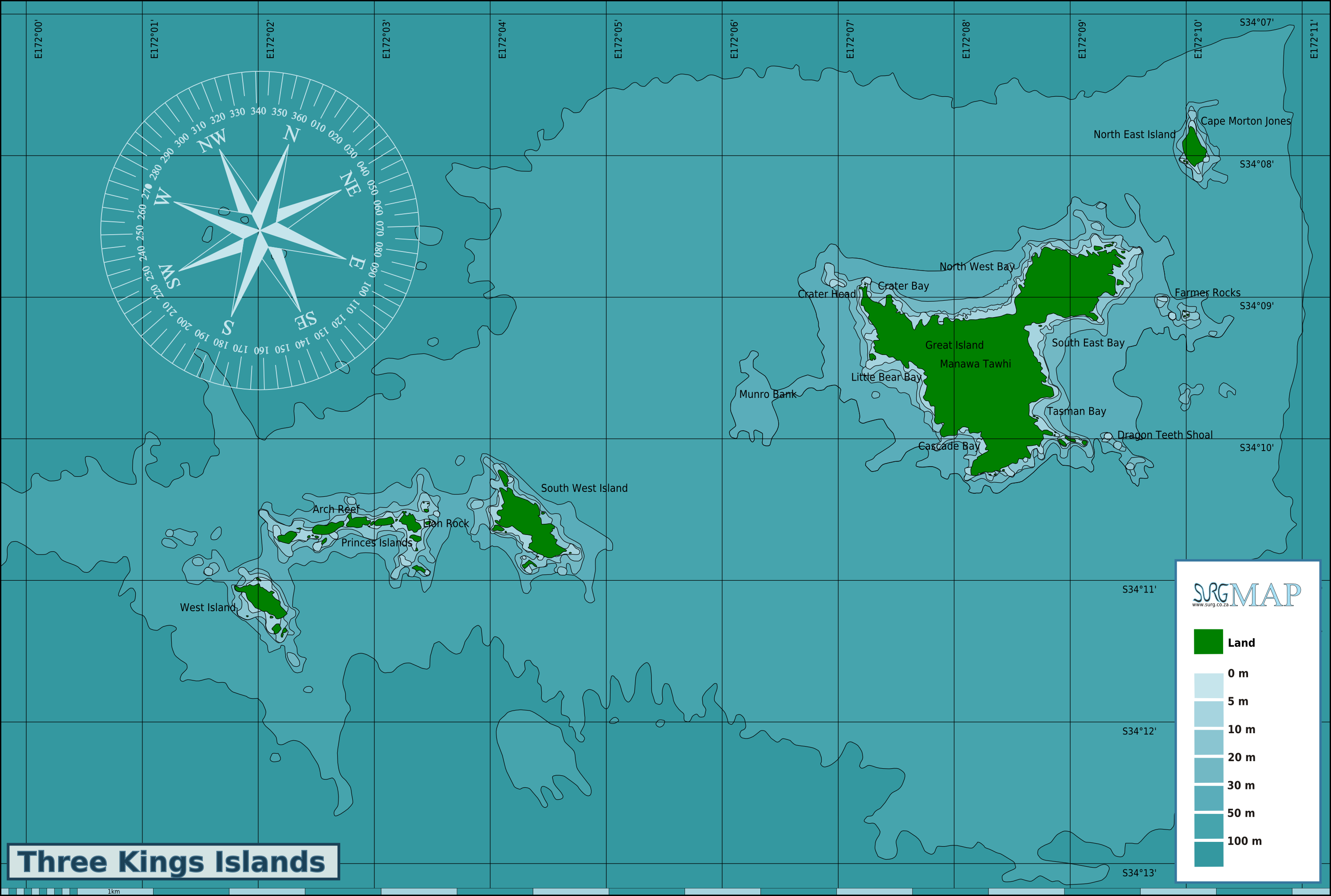 Map of the Three Kings Islands, New Zealand, showing dive sites